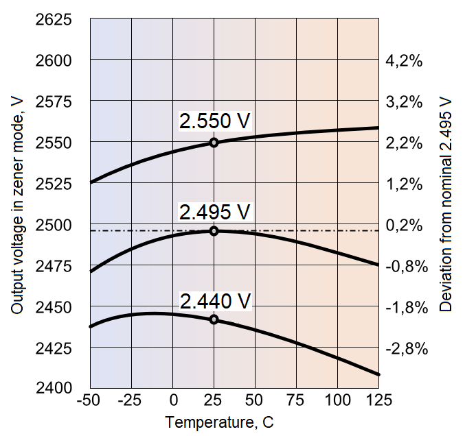 Median and worst-case curves for the TL431 bandgap reference (all refer to standard test conditions - zener mode at 10 mA, varying only temperature).